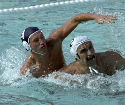 “Water polo. USSR vs. Hungary”. Moscow, V.I.Lenin Central Stadium's swimming pool, the 22nd Olympic Games. Water polo match between the national teams of the USSR and Hungary. Soviet water polo players won 5-4. Eugeny Grishin ( #4) and Istvan Szivos (#2) fighting for a ball.